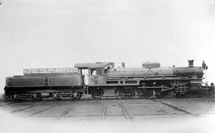 An express train with a 2-C-1 four-cylinder compound locomotive with superheater and warmer for food and a tender behind